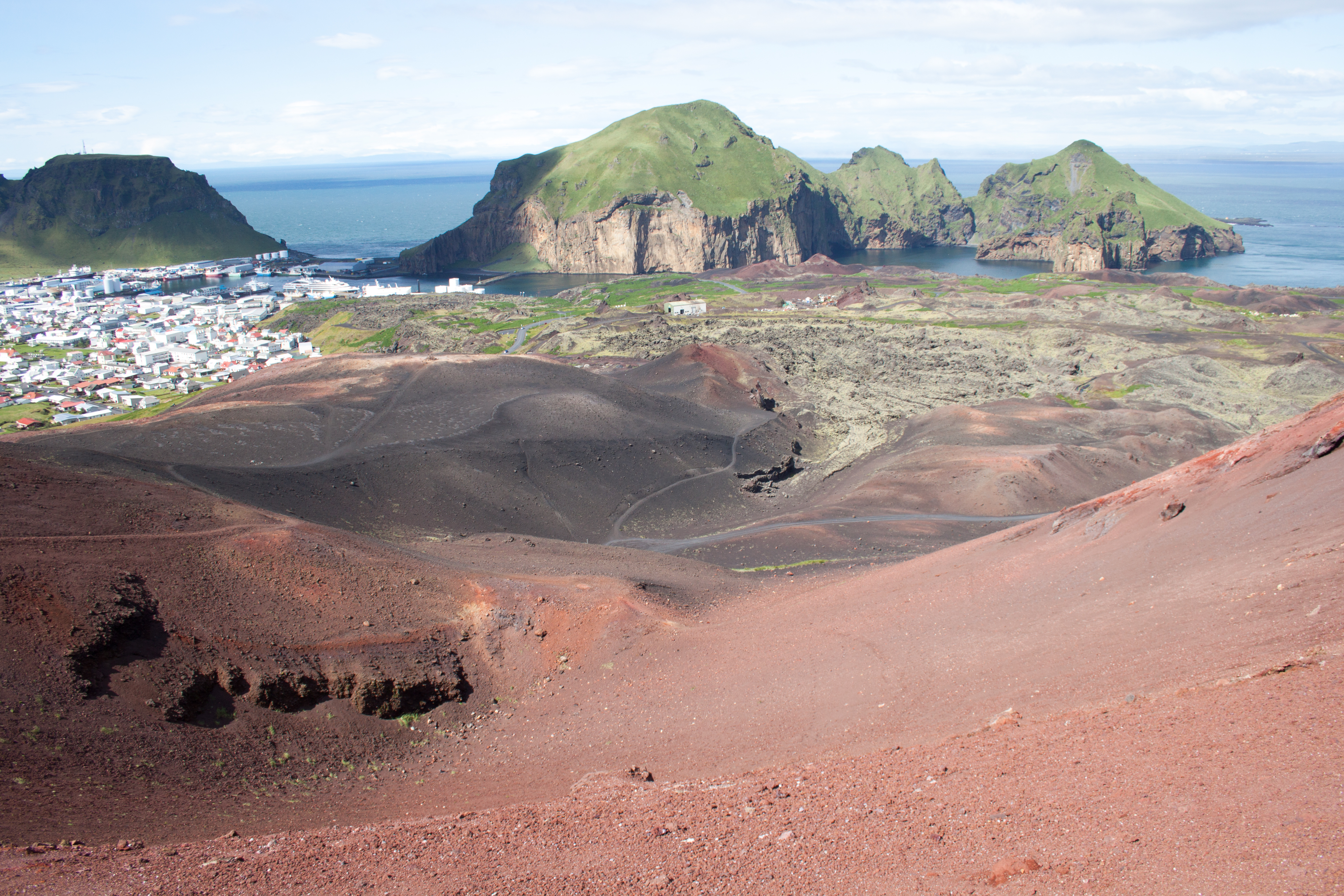 View from the top of the Eldfell